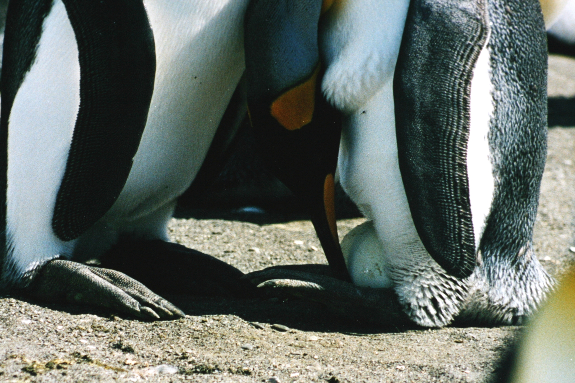 Photograped by Brocken Inaglory in January, 1999 King Penguins parents are changing the egg guard at South Georgia Island.